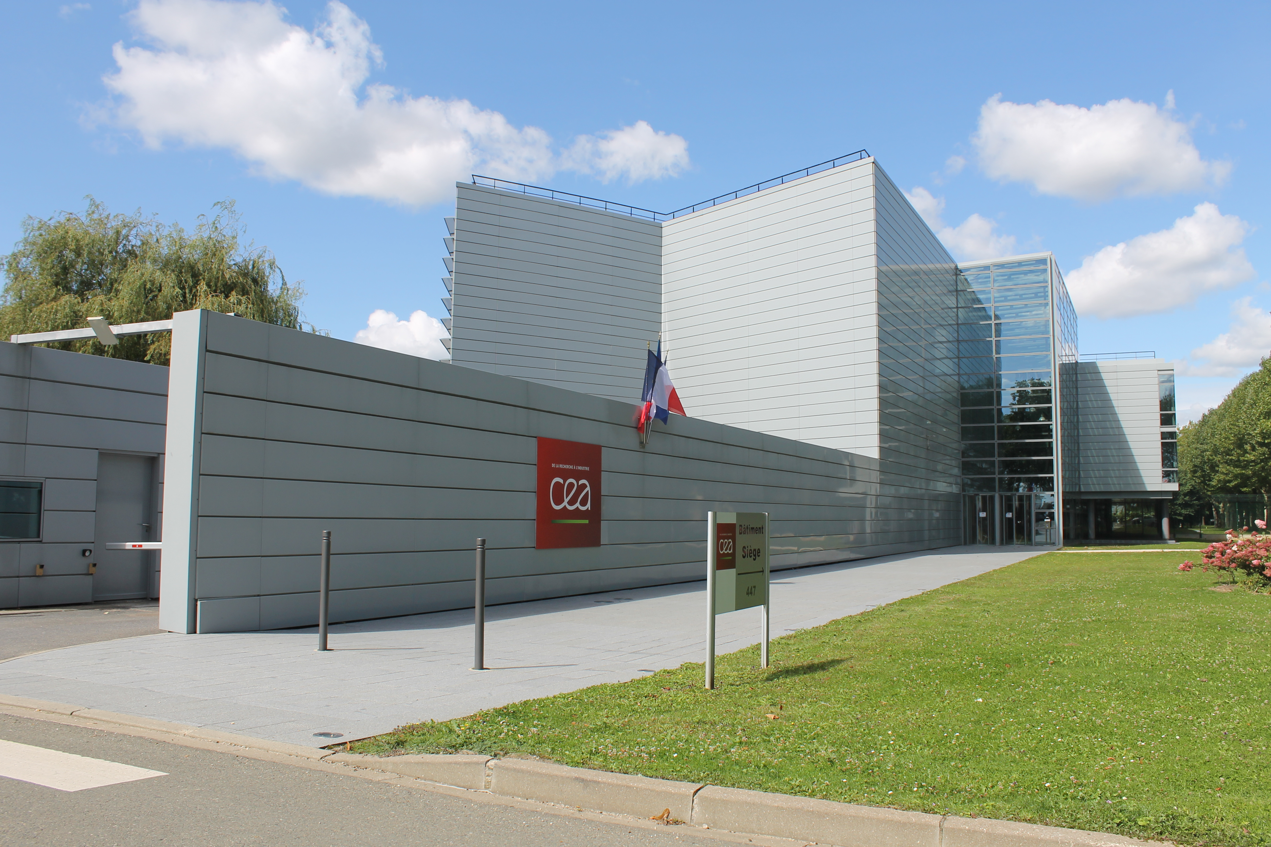 The headquarters of the Saclay Nuclear Research Centre (CEA Saclay), in the Paris-Saclay research-intensive cluster.